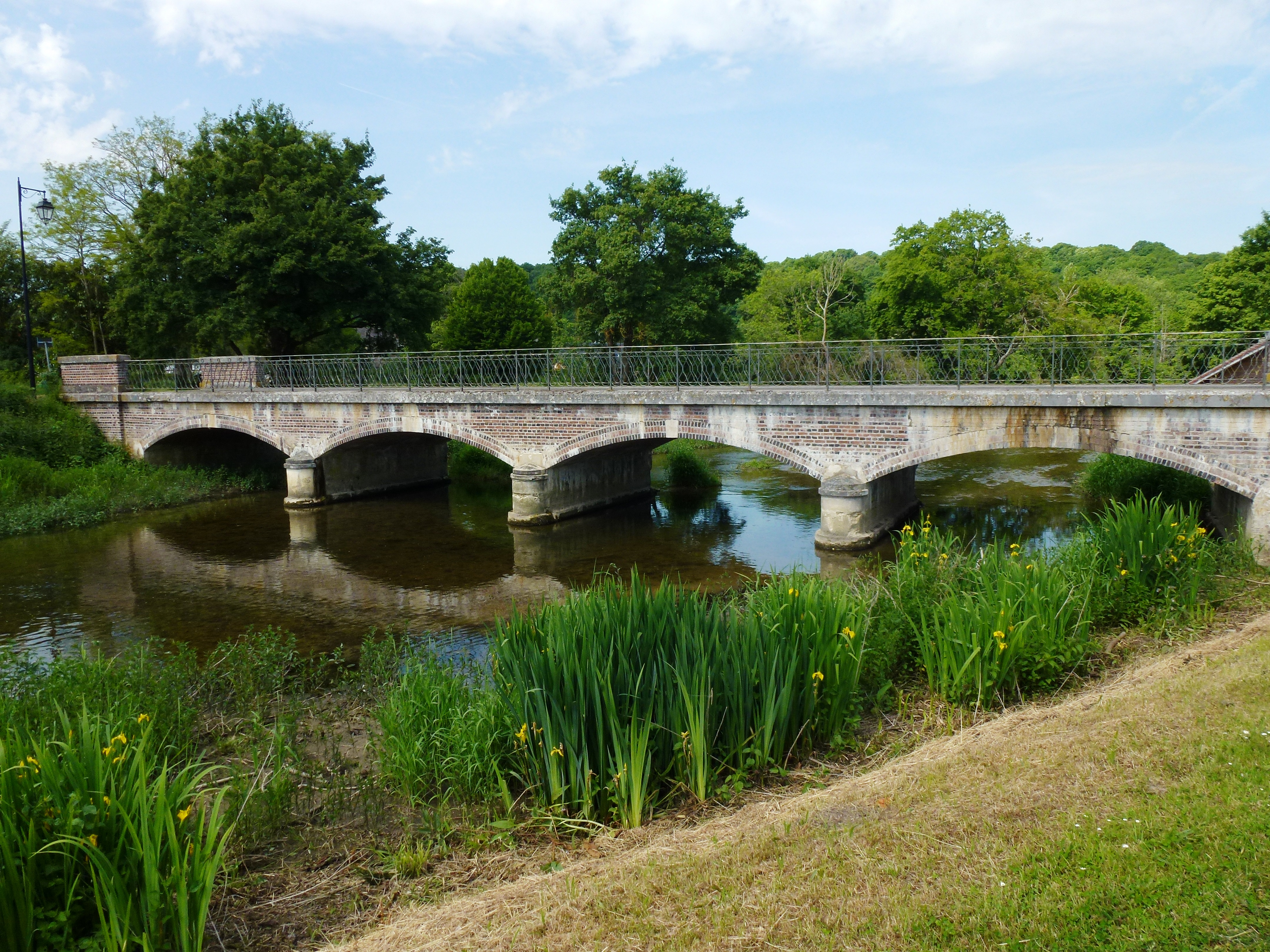 Pont sur la Risle in Grosley-sur-Risle (Eure, Fr)